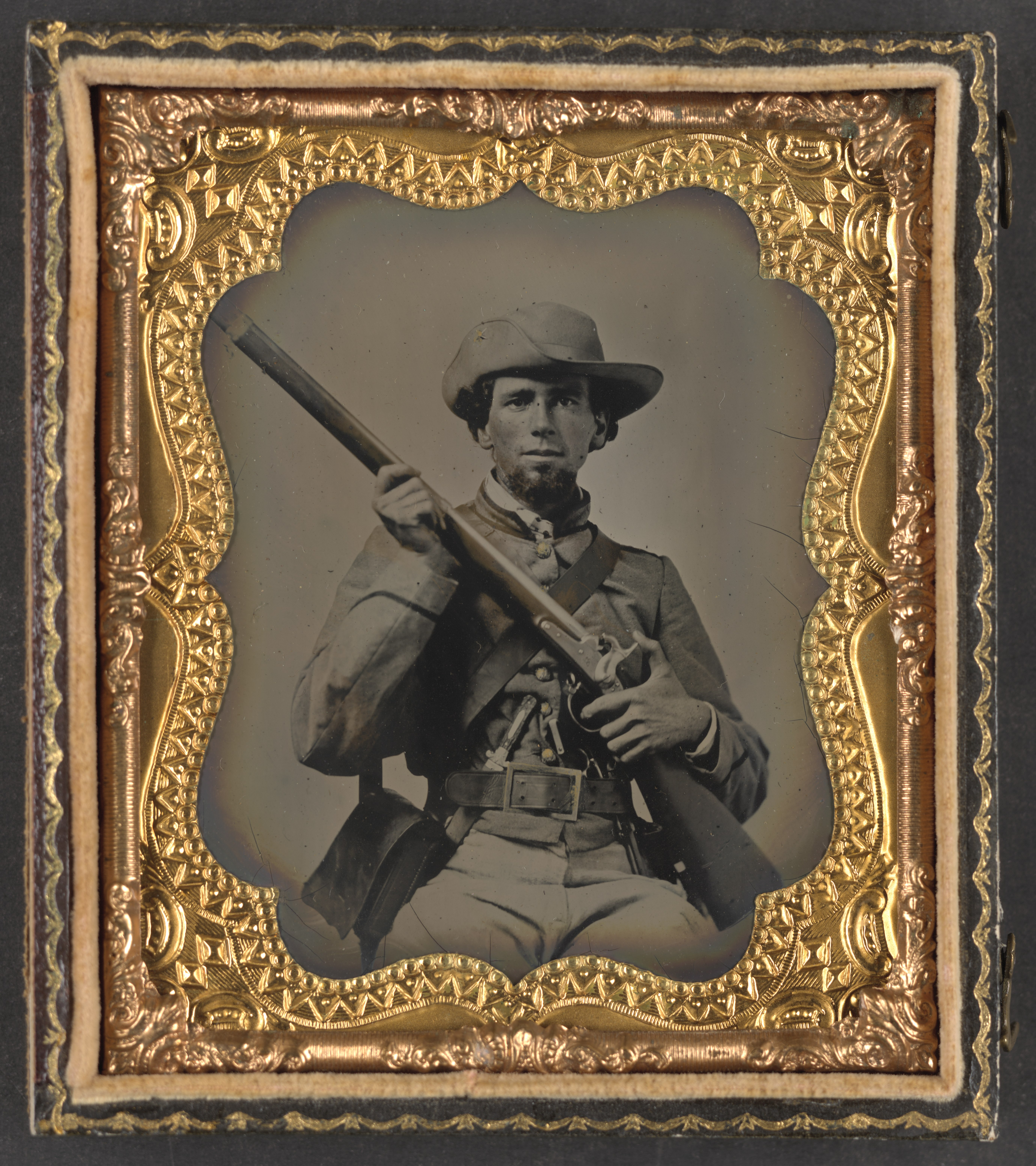 Title: Private John P. Alldredge of Co. A, 48th Alabama Infantry Regiment in uniform and wishbone belt buckle with Model 1842 rifle musket, revolver, and side knife Abstract/medium: 1 photograph : tintype ; plate 80 x 69 mm (sixth plate format), case 94 x 81 mm.